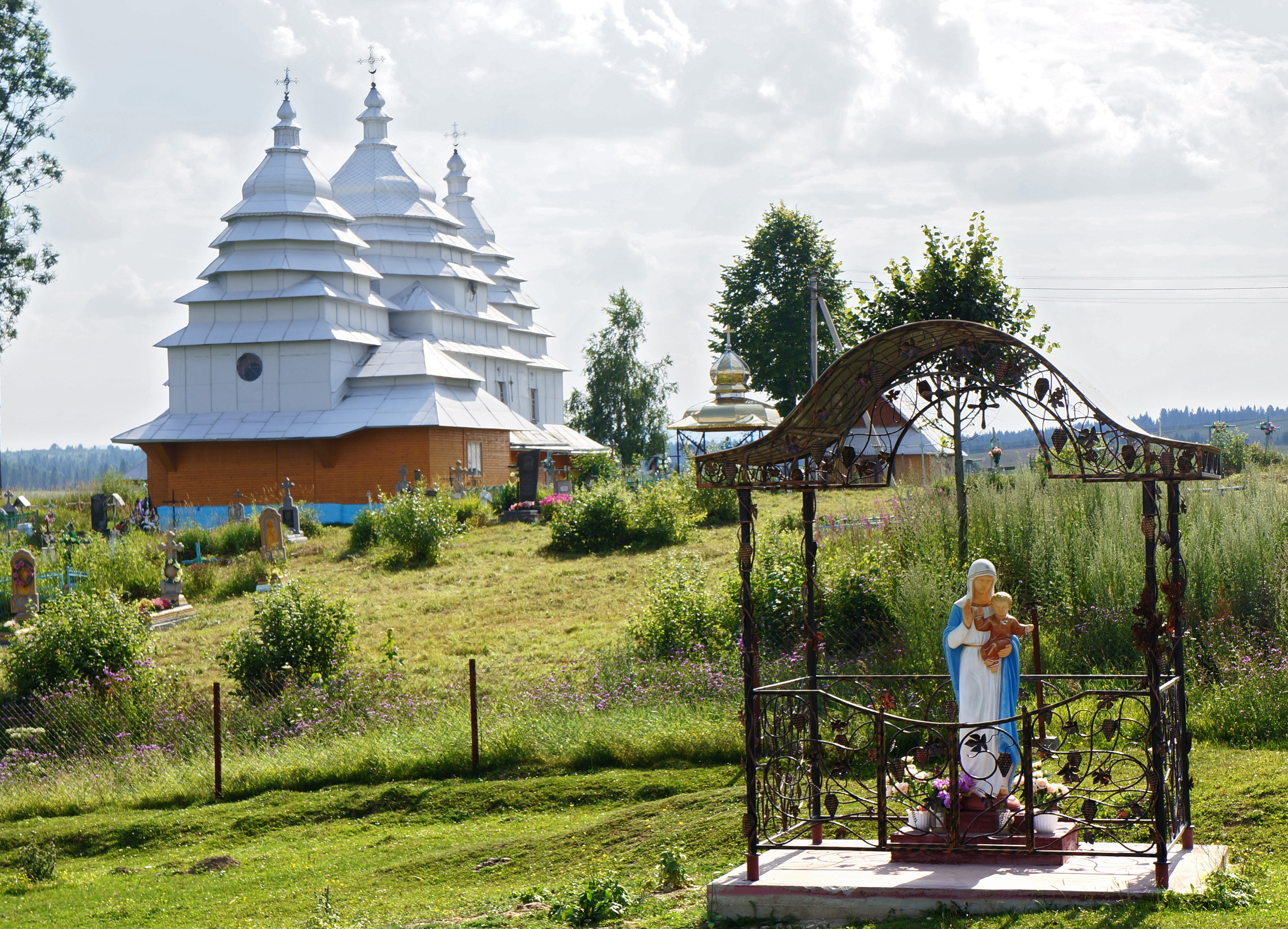 Church, Pryslip